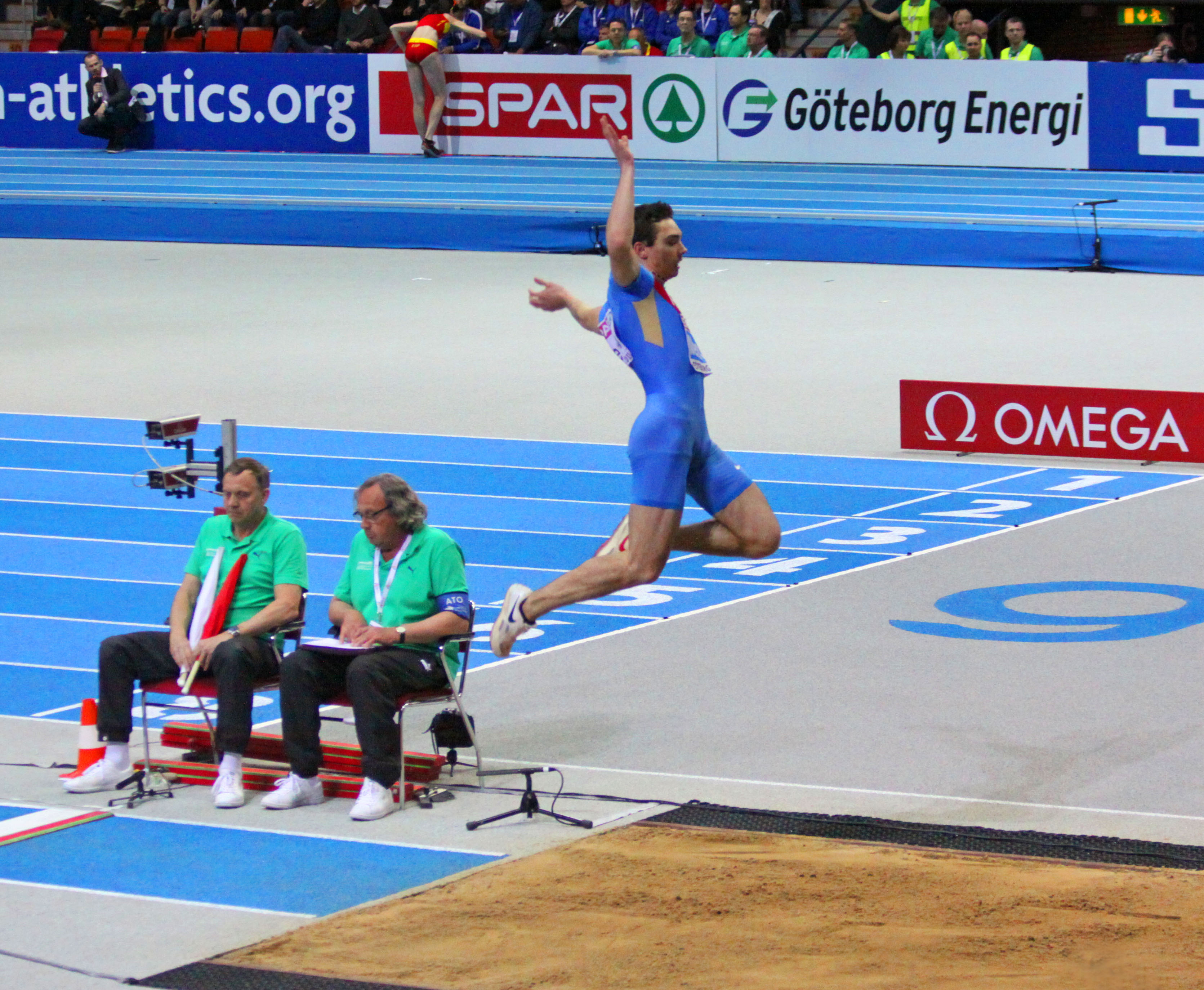 Aleksandr Menkov of Russia competing at the 2013 European Athletics Indoor Championships.